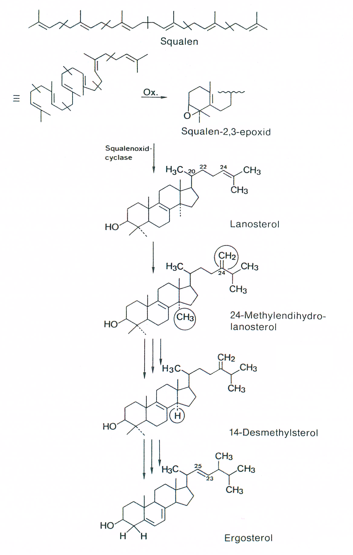 Biosynthesis of Ergosterol from Squalen